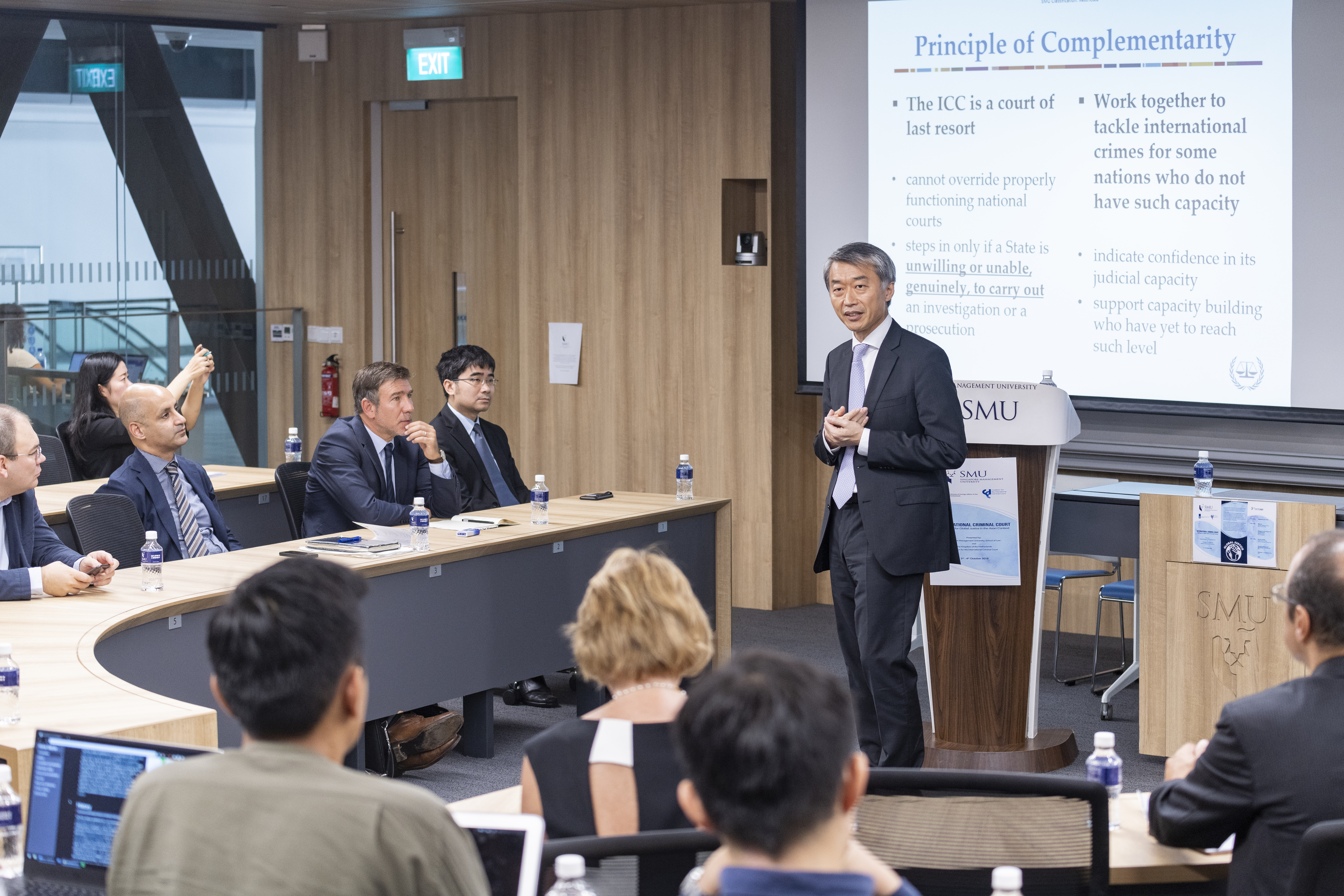 Judge Chung Chang-ho of the International Criminal Court speaking at Singapore Management University School of Law